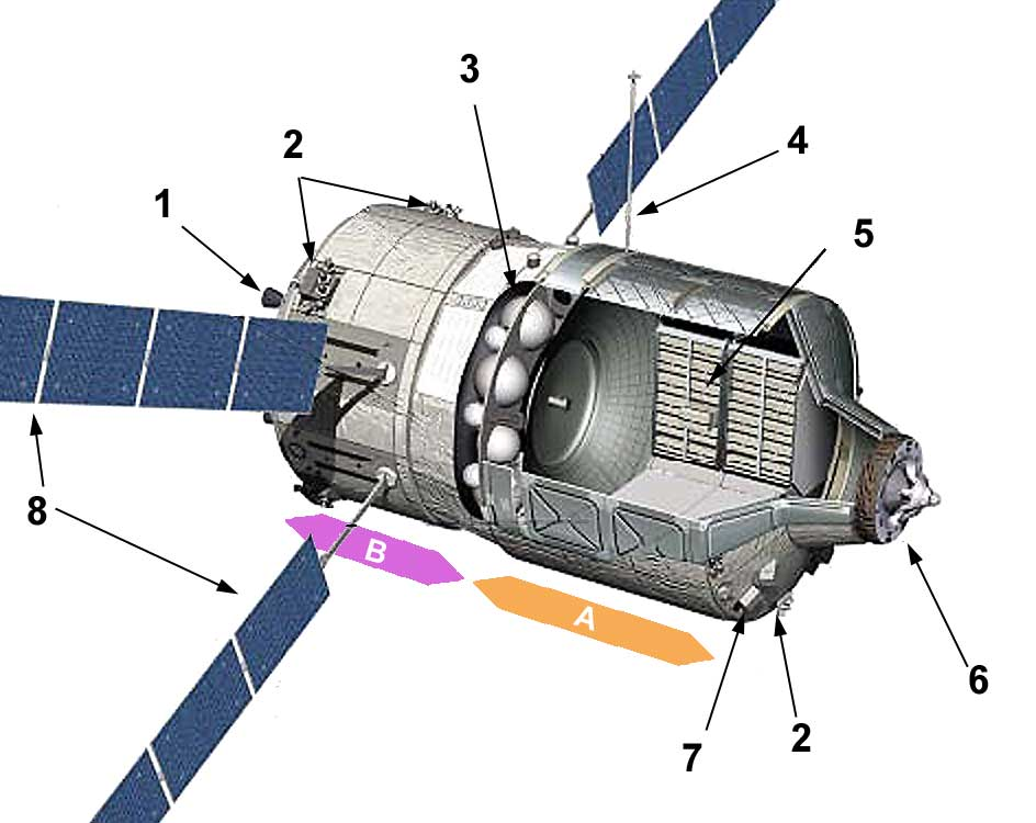 ATV-2 • The ATV is about the size of a traditional London double-decker bus. • Propulsion Module. It has four main engines and 20 smaller thrusters for attitude control. • Docking and refuelling system. The „nose“ contains the rendezvous sensors and Russian-made docking equipment. It also has eight thrusters to complement the propulsion system. • Integrated Cargo Carrier. Attaches directly to the space station and can store up to eight standard payload racks. • Four solar arrays. Provide electrical power to rechargeable batteries for eclipse periods. ATV can fully operate with the 4800 W generated by its solar wings, equivalent to the electricity used by a typical water heater at home. • Protection Panels. Protect against micrometeoroid and orbital debris. Cargo Payload – 4.4 tons of propellant (reboost and attitude control propellant) – 1,896 pounds of refuelling propellant for the station’s propulsion system – 220 pounds of air (oxygen and nitrogen) – 1.76 tons of dry supplies like bags, drawers and fresh food Total: 7 tons Measurements Largest diameter: 14.7 feet Length (probe retracted): 32.13 feet Total vehicle mass: 28,843 pounds Solar arrays span: 73.16 feet